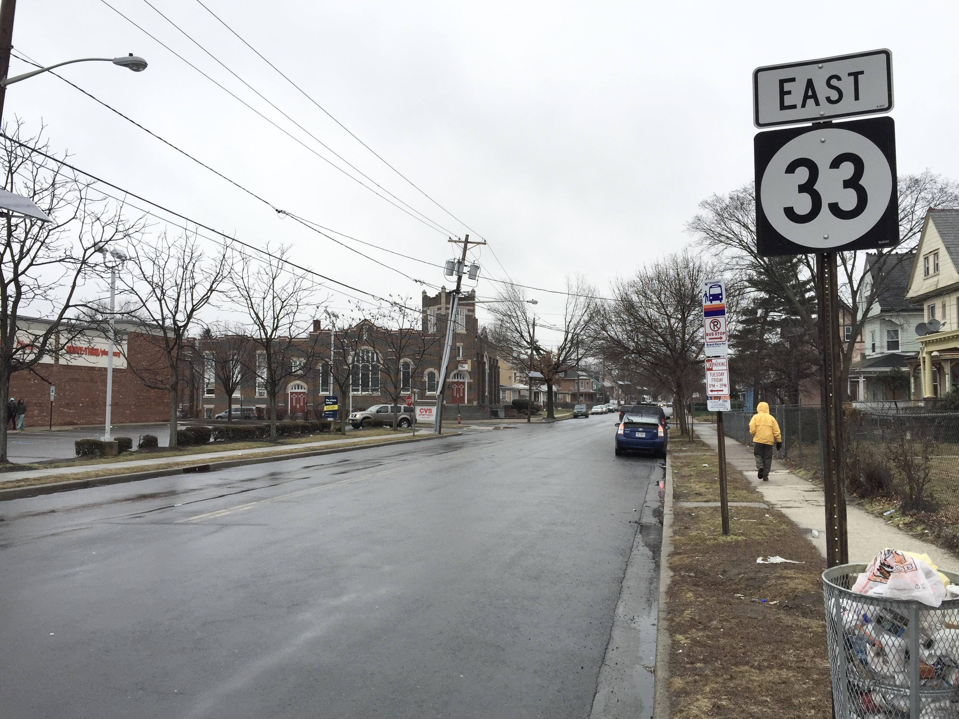 View east along Greenwood Avenue (New Jersey Route 33) near Olden Avenue (Mercer County Route 622) in the Wilbur section of Trenton, New Jersey